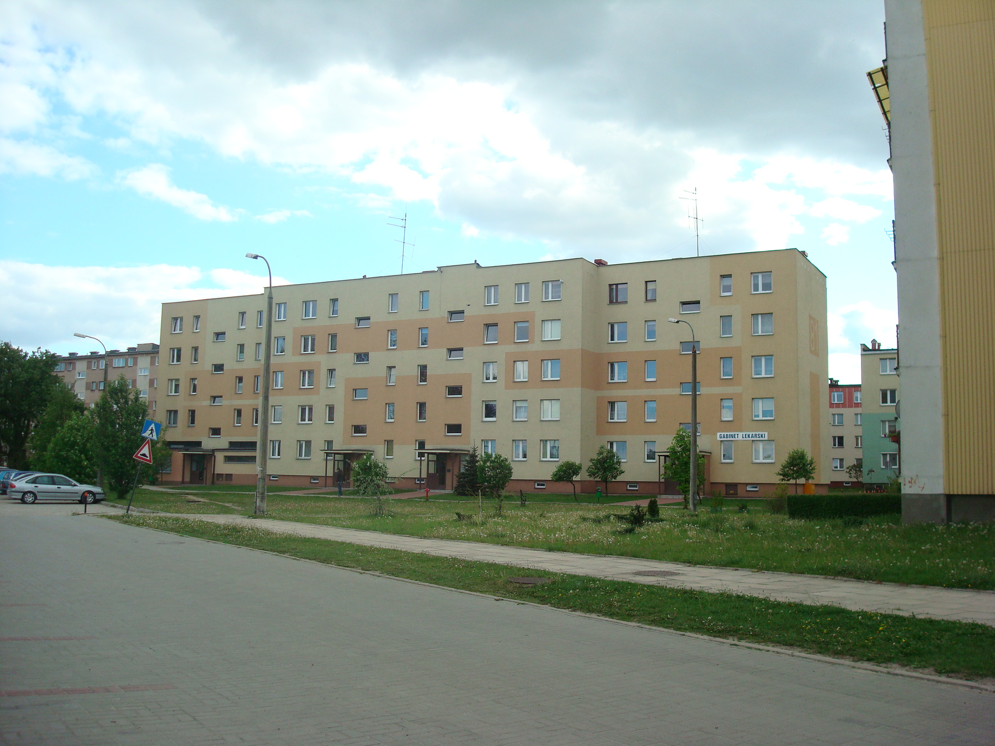 Housing estate "Żytnia" in Siedlce